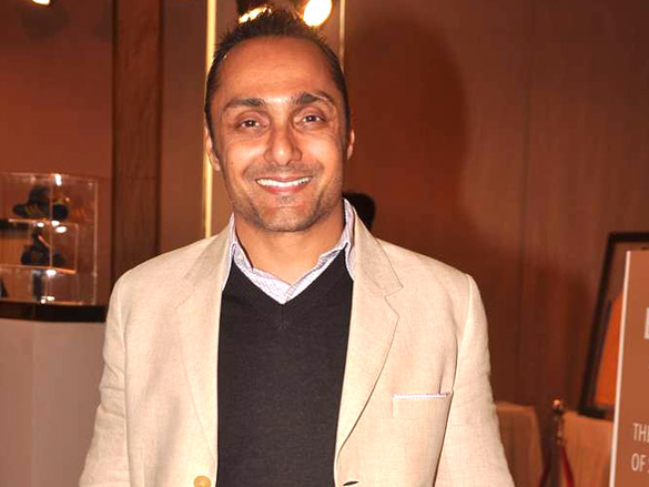 Rahul bose